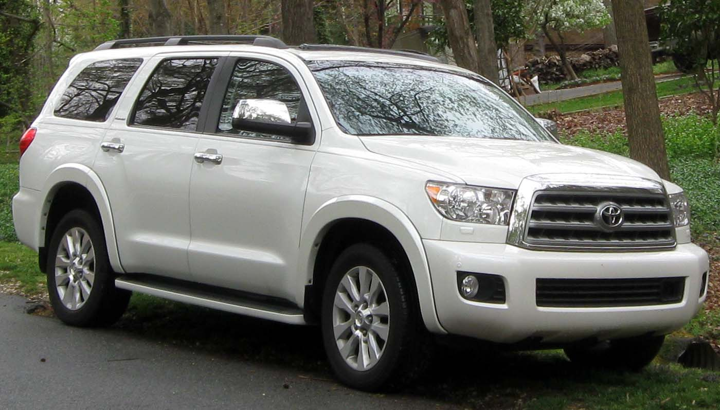 2008-2012 Toyota Sequoia photographed in Fort Washington, Maryland, USA.